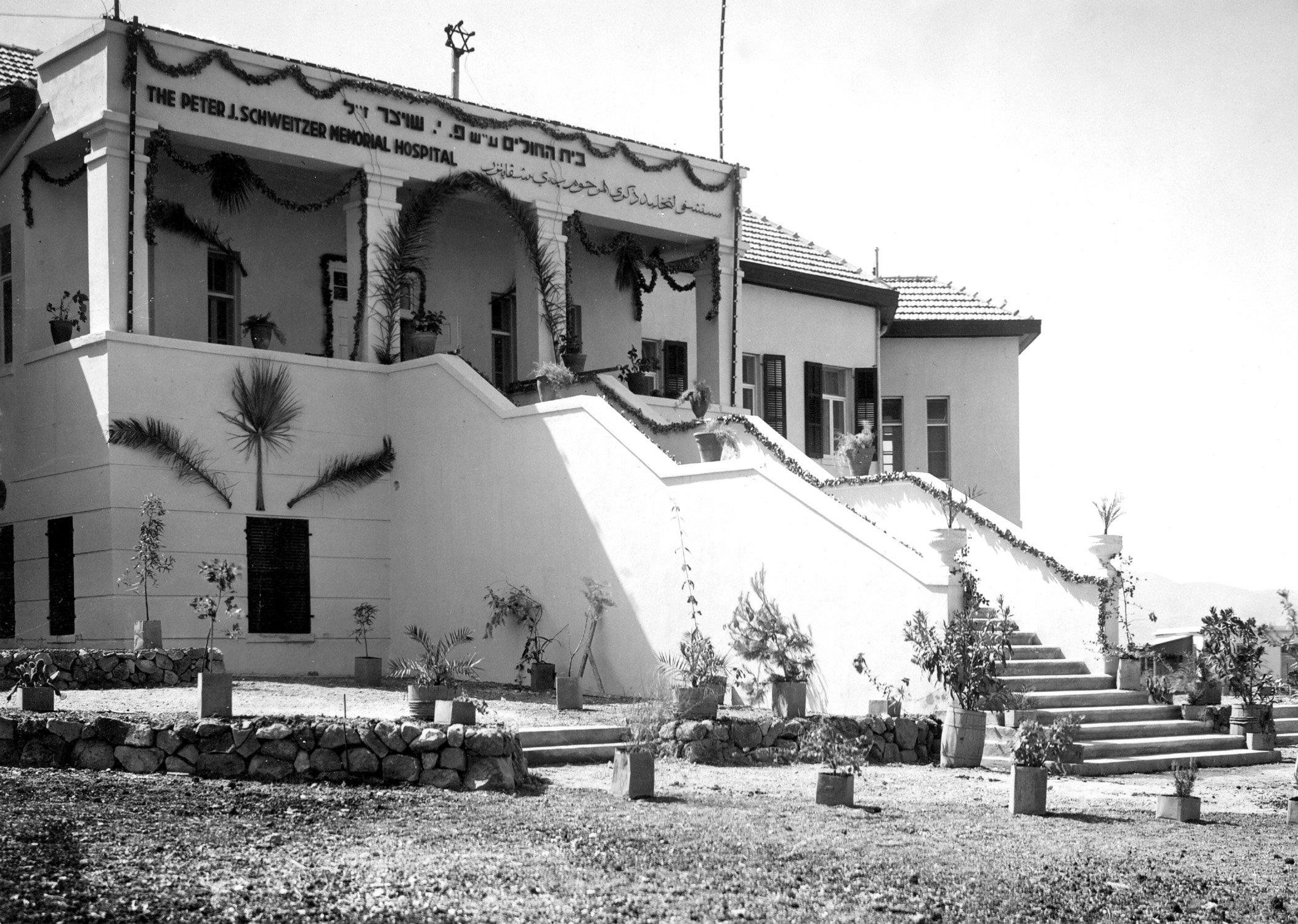 Facade of Schweitzer Hospital at Tiberias